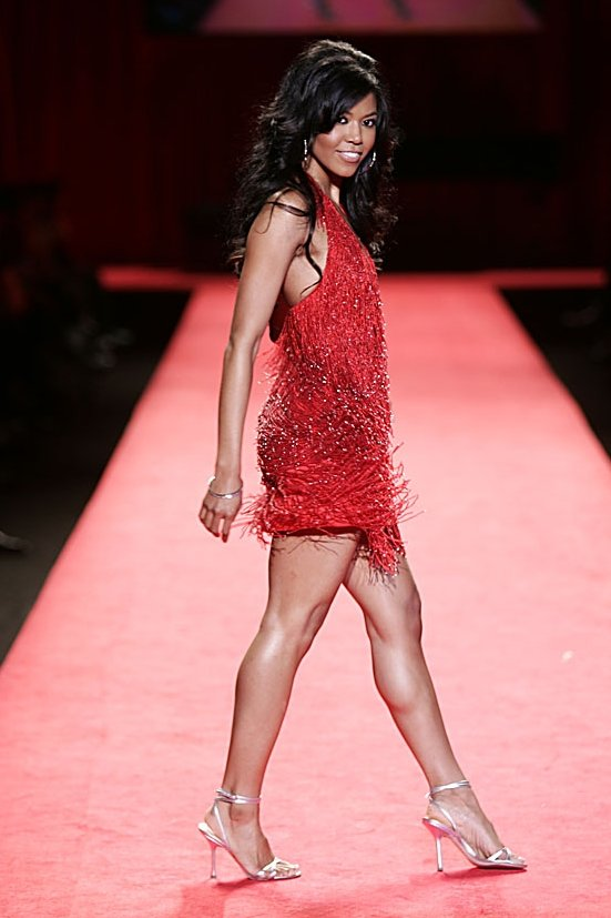 Amerie in the 2006 Red Dress Collection for the Heart Truth campaign